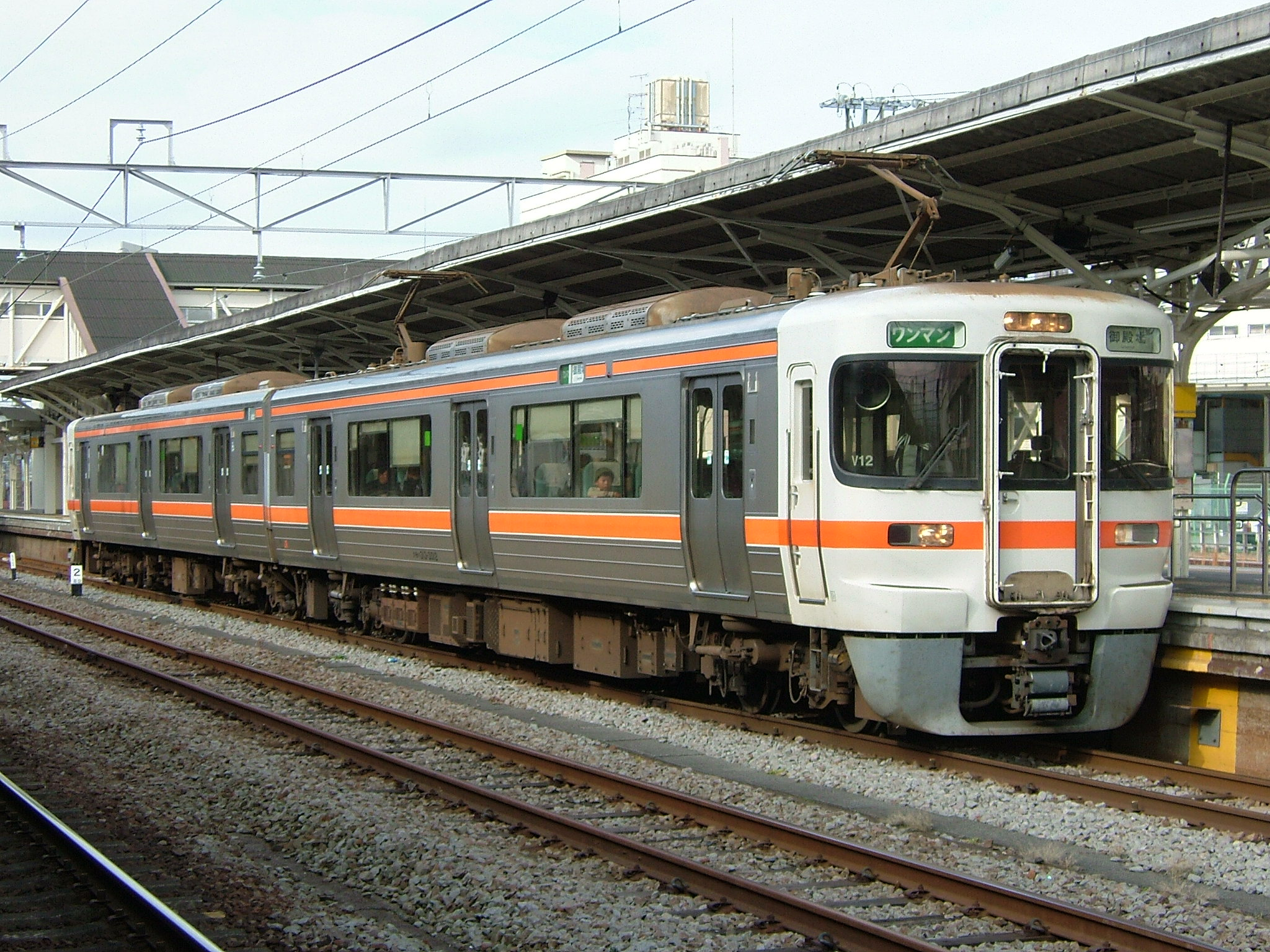 JR Central 313-3000 series 2-car EMU set V12 at Numazu Station on the Gotemba Line